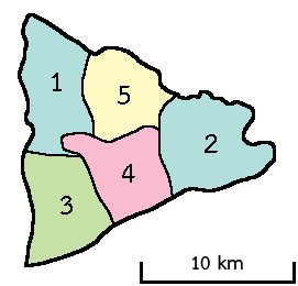 Subdistricts of Mueang Suang